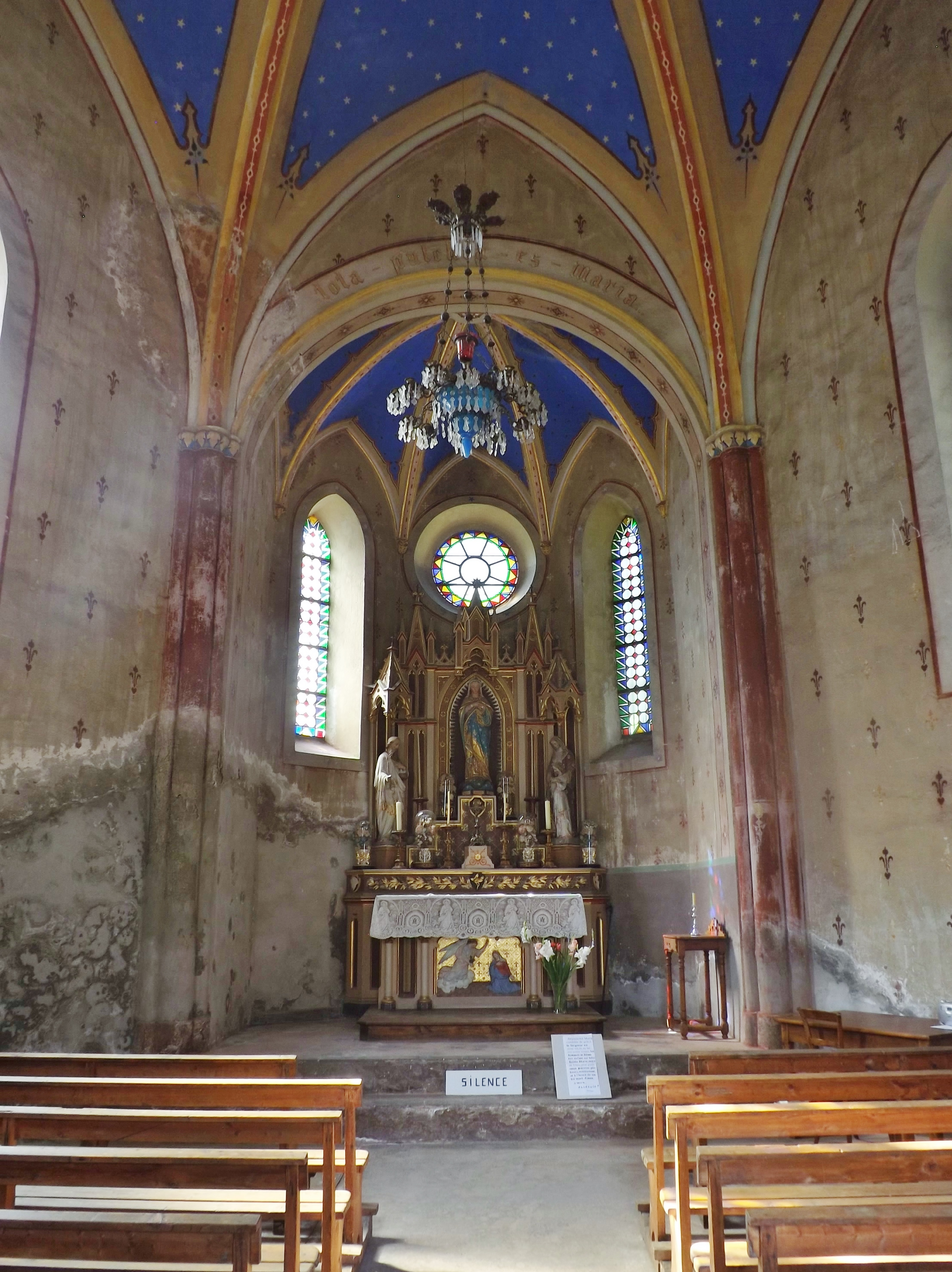 Inside sight of the chapelle de la Balme chapel of Montvernier, in Savoie, France.